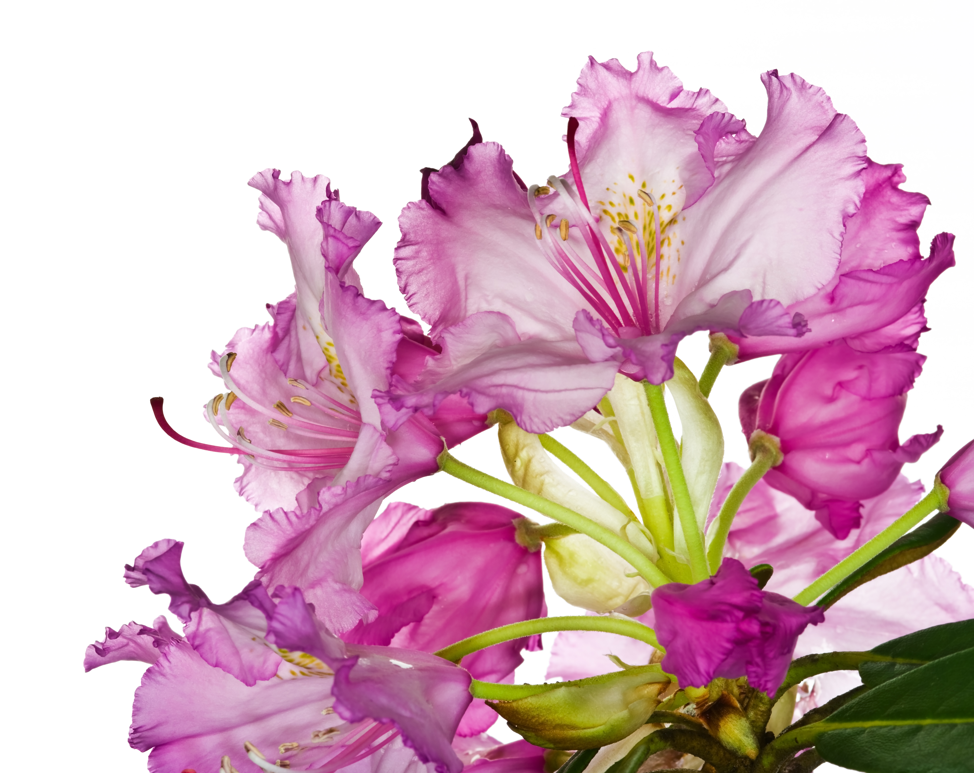 Rhododendron smirnowii - blossom